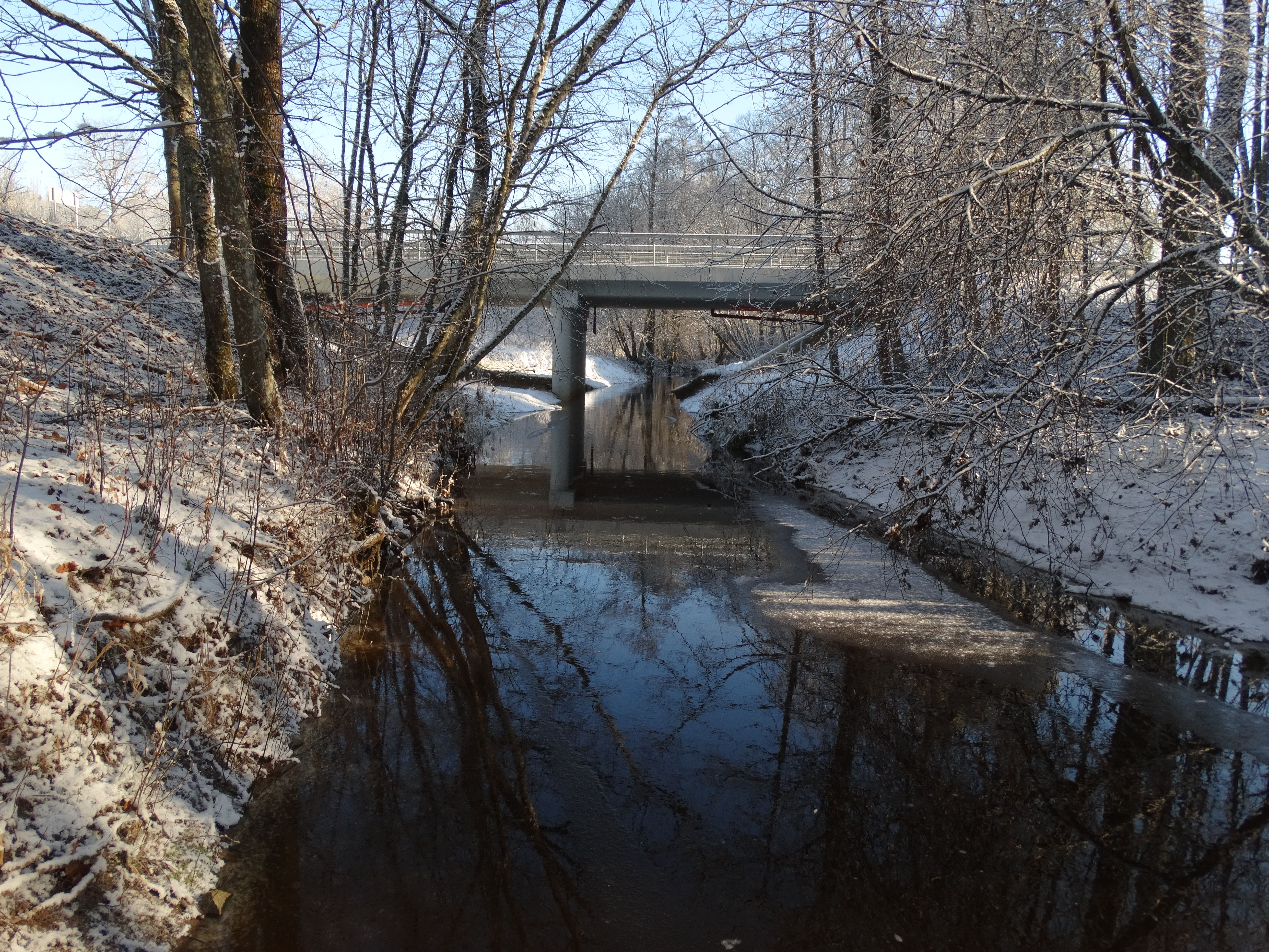 Vidauja River, Jurbarkas district, Lithuania